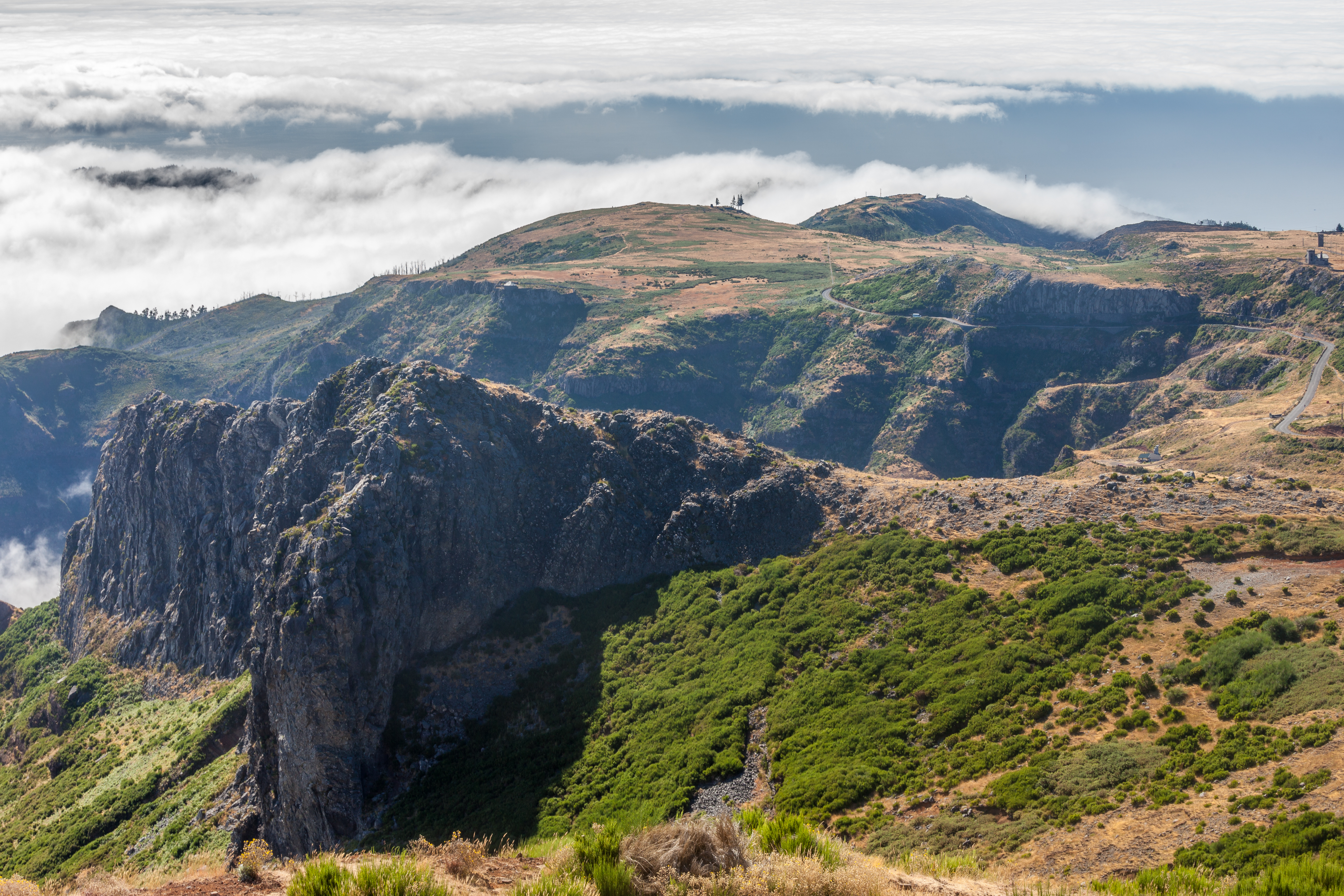 Central Mountain Massif from Pico do Areeiro, Madeira, Portugal.